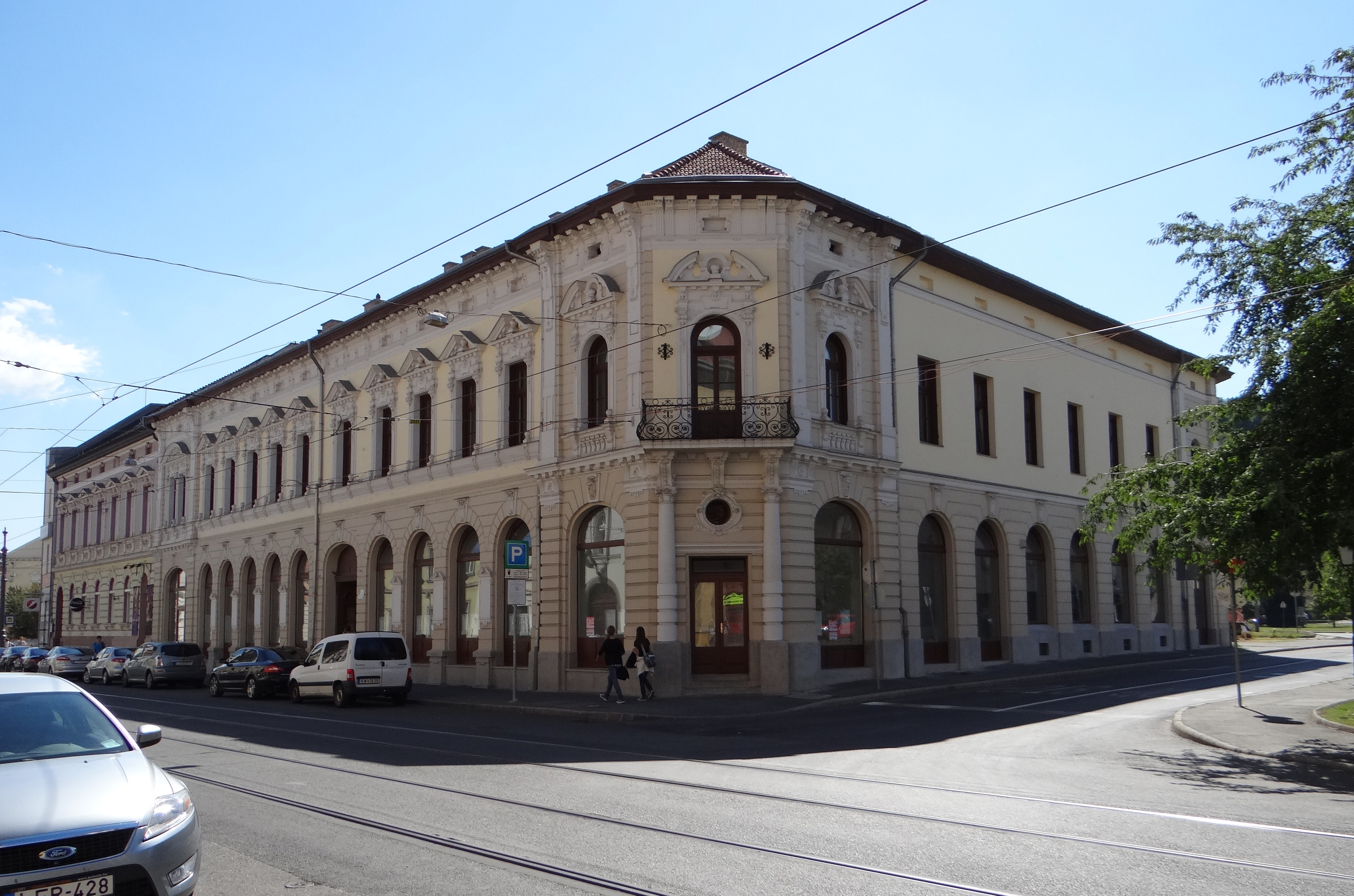 Lichtenstein House, 5 Hunyadi Street, Miskolc, Hungary